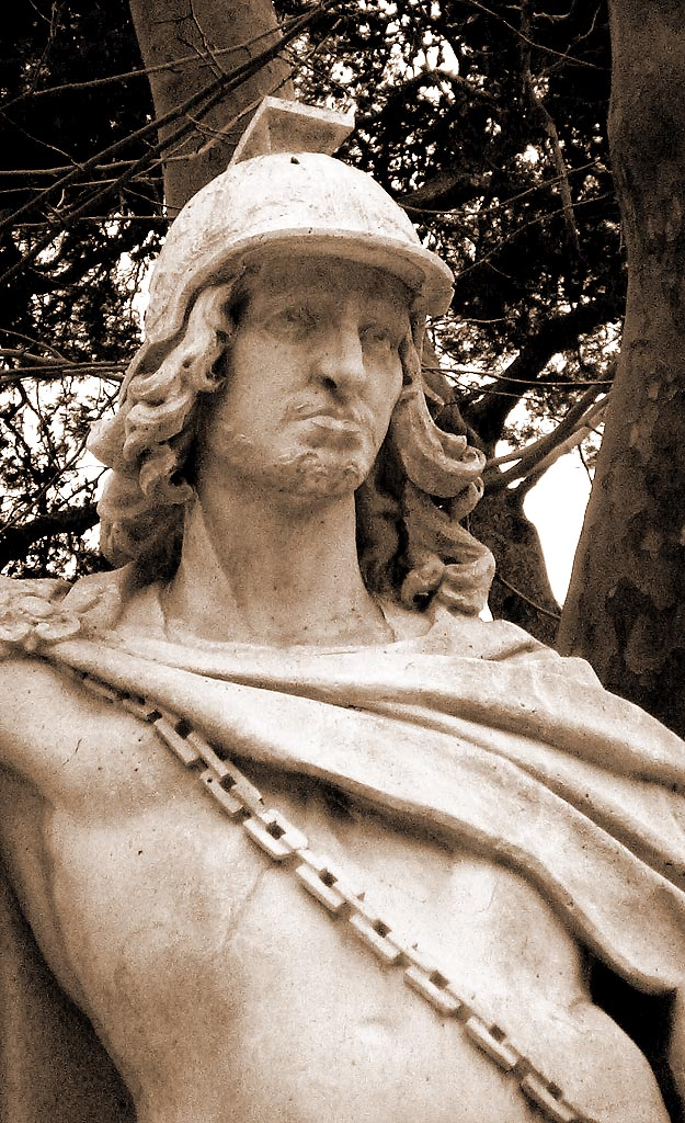 Statue of Visigoth king Wamba († 688) at the Plaza de Oriente (square) in Madrid (Spain). Sculpted in white stone by Alejandro Carnicero (1693–1756) between 1750 and 1753.